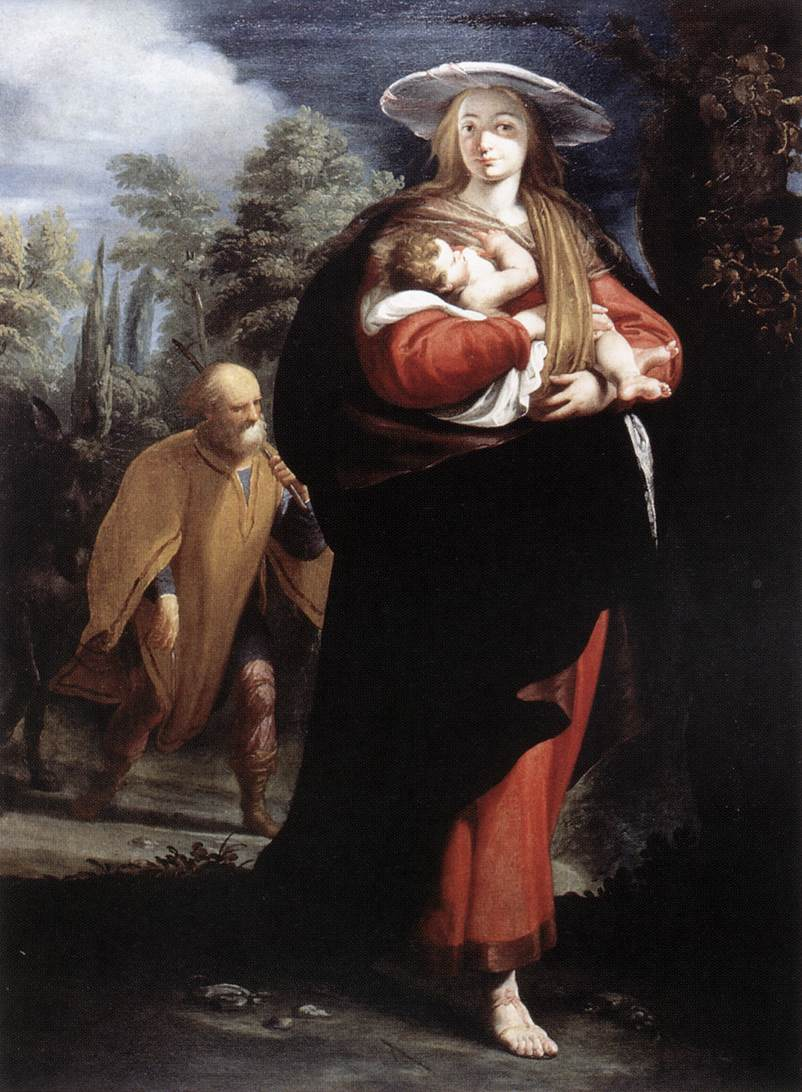 The Flight into Egypt